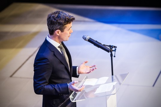 Picture taken at the opening of Aarhus Symposium 2014